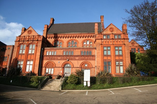 Christ's Hospital Girl's School Designed by Lincoln architect William Watkins and opened in 1893, this striking red brick and terracotta building on Lindum Hill was originally the Christ's Hospital Foundation Girl's School and is now part of the University of Lincoln.